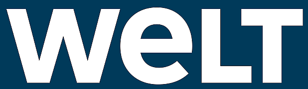 This is the new Logo of the television station "welt", formerly called N24.